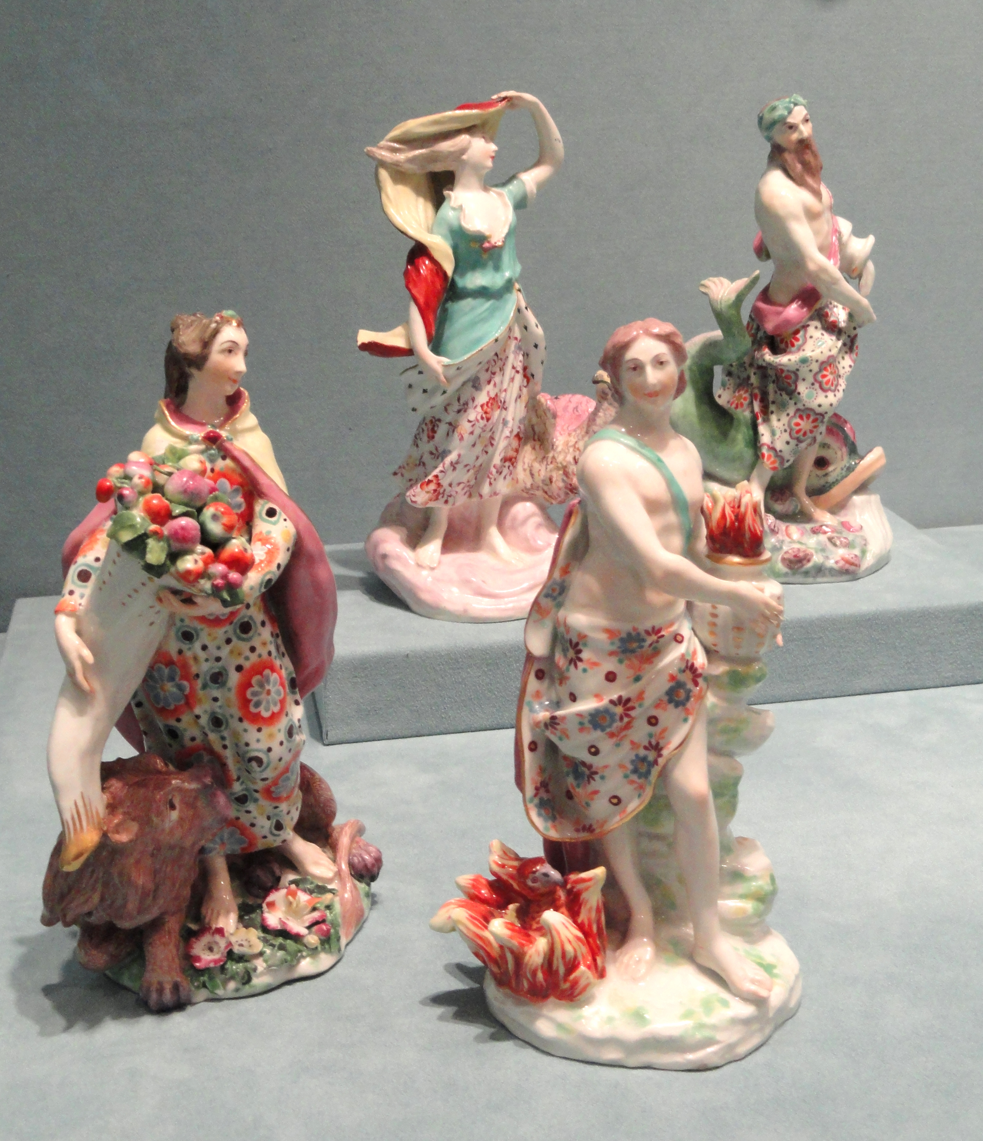 The Elements, Chelsea Porcelain Manufactory, circa 1760-1769. Exhibit in the Indianapolis Museum of Art, Indianapolis, Indiana, USA.